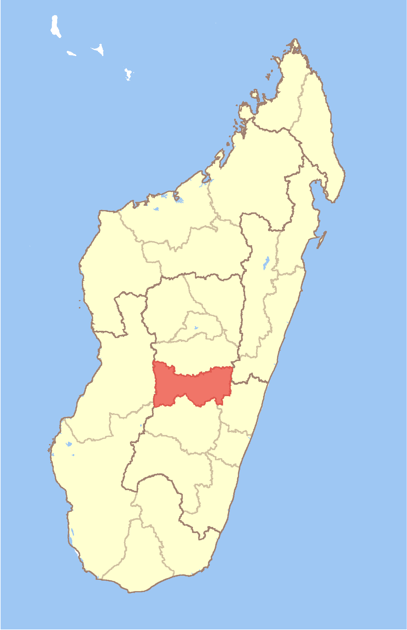 Map of Madagascar with Amoron'i Mania Region highlighted